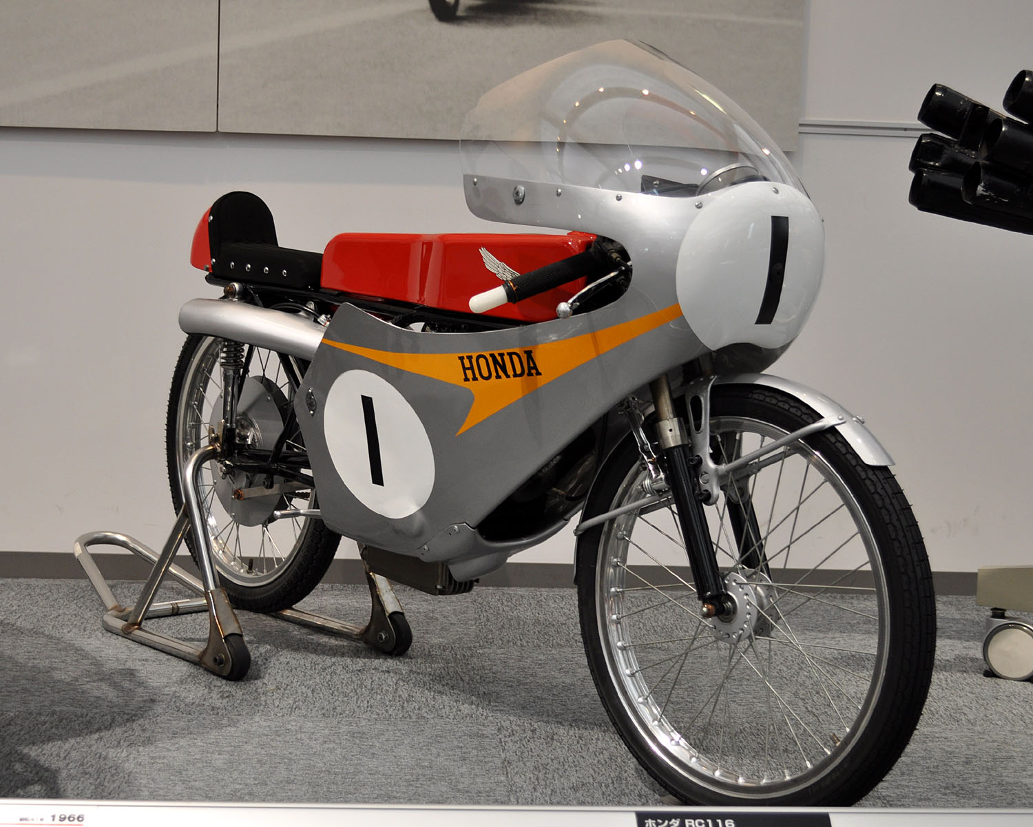 Honda RC116 (Ralph Bryans, 1966)